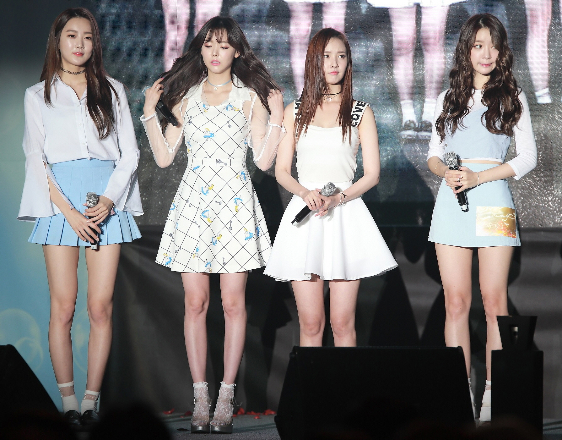 160611 달샤벳 직찍 직캠